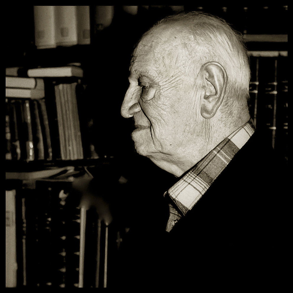 Portrait of Francesco De Martino